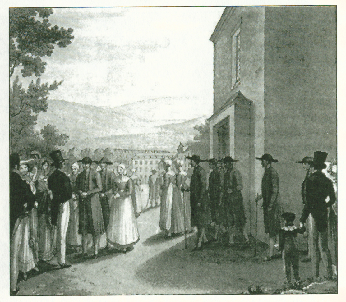 german quaker in friedensthal